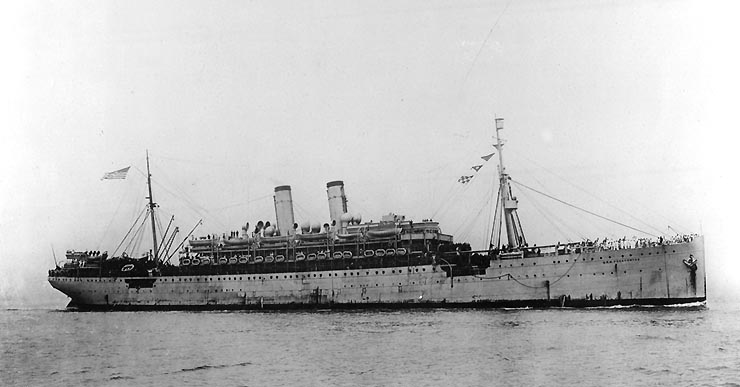 USS Pocahontas (SP-3044), formerly Prinzess Irene from the Norddeutscher Lloyd, underway in 1919, while transporting U.S. service personnel home from Europe.